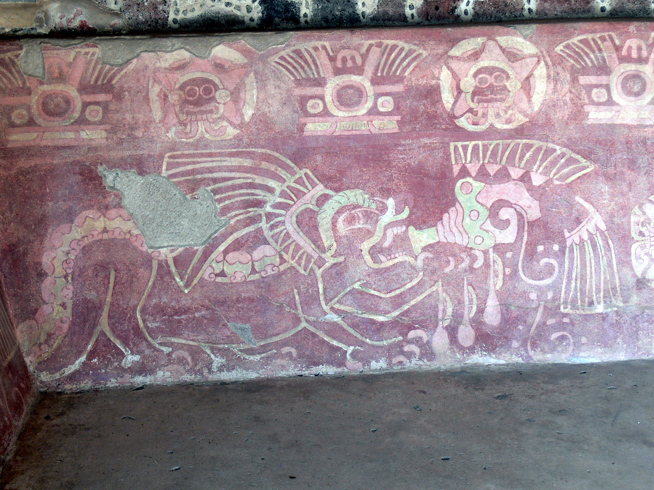 Palacio de Quetzalpalotl, Teotihuacán. Temple of the Jaguars: The Jaguar donned with a feather headdress is sounding a snail-horn.